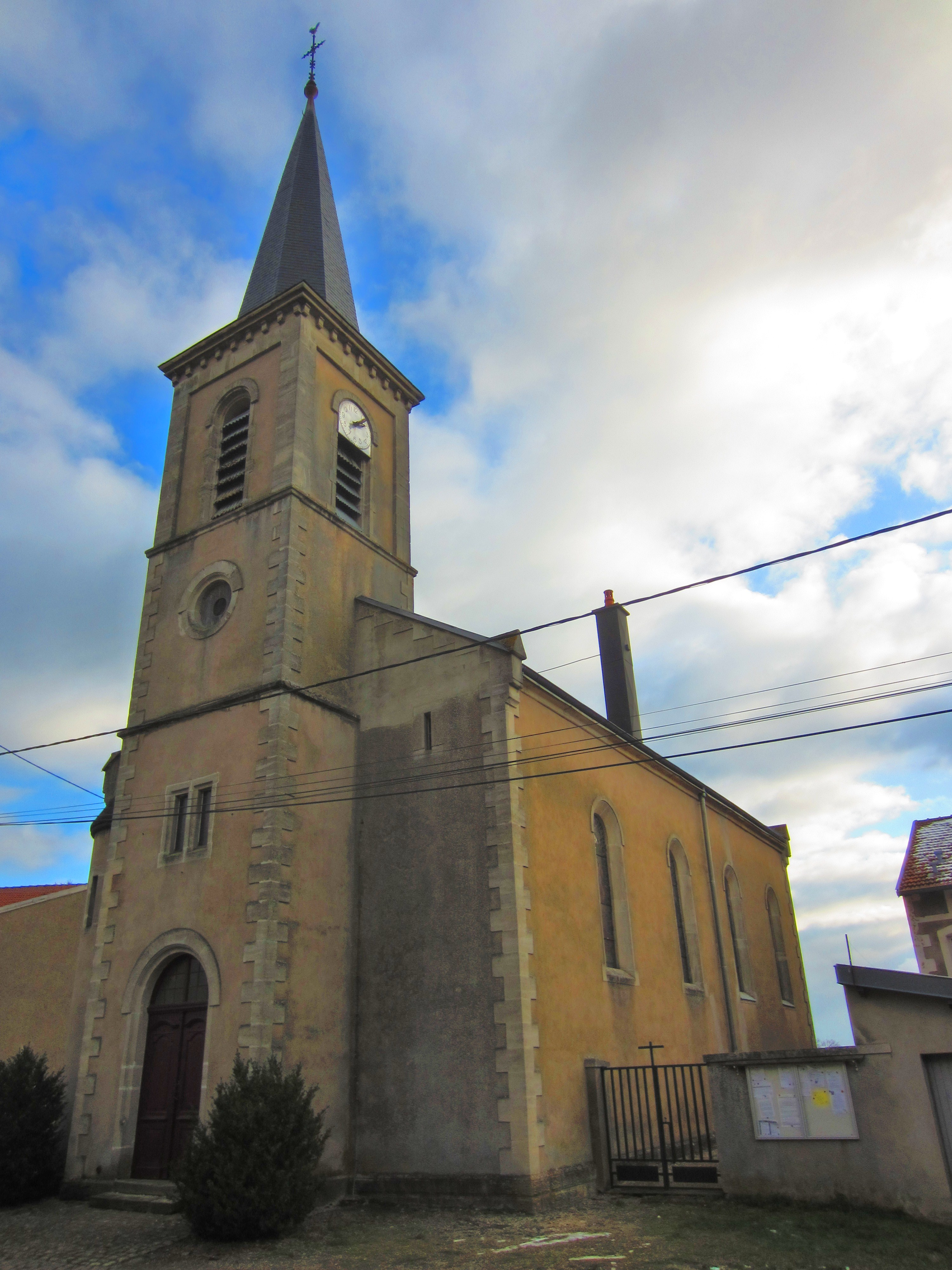 Prevocourt church